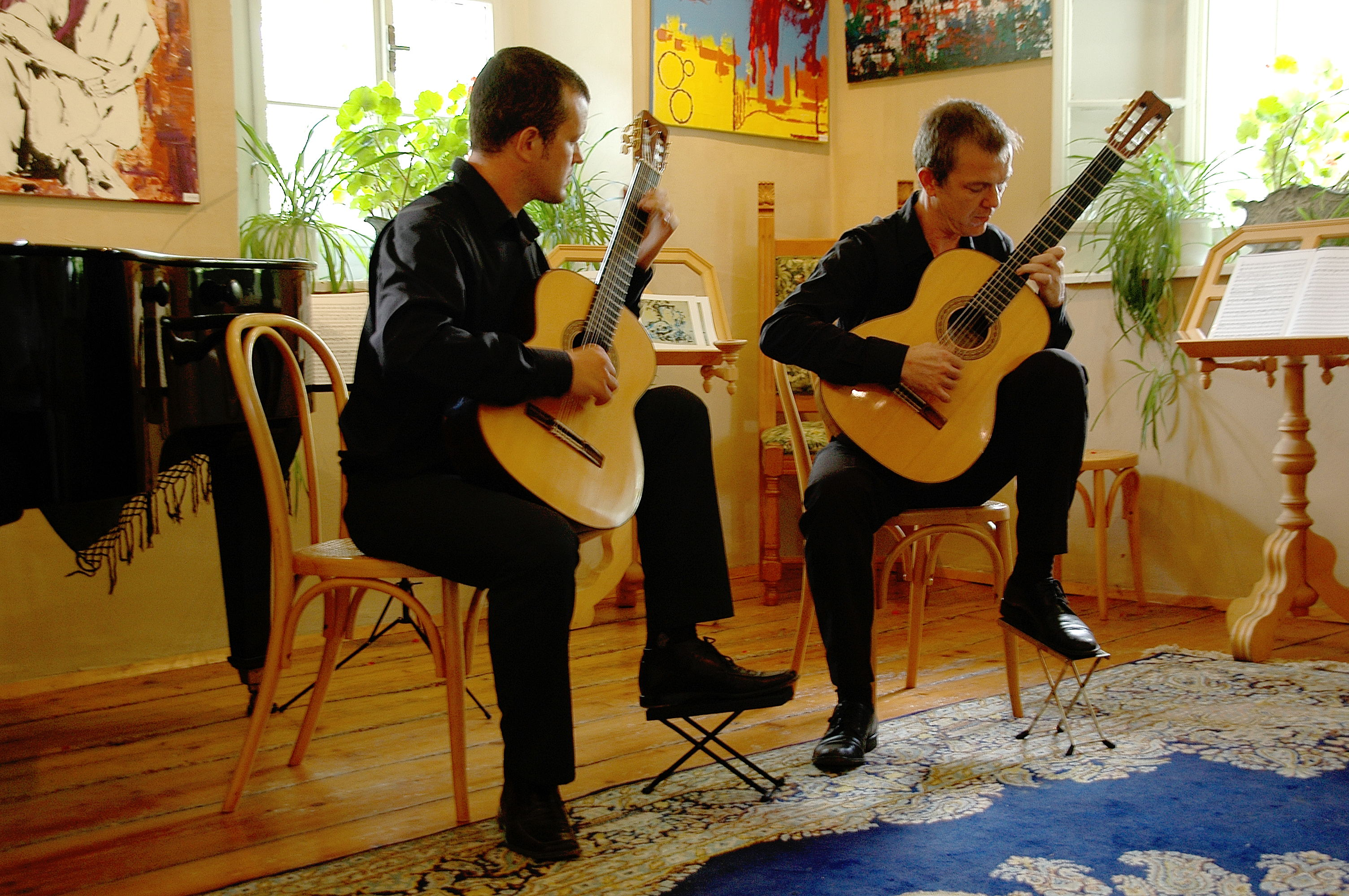 Martin and Michael Oettl, brothers and guitar-duo from Landeck, Tyrol, Austria